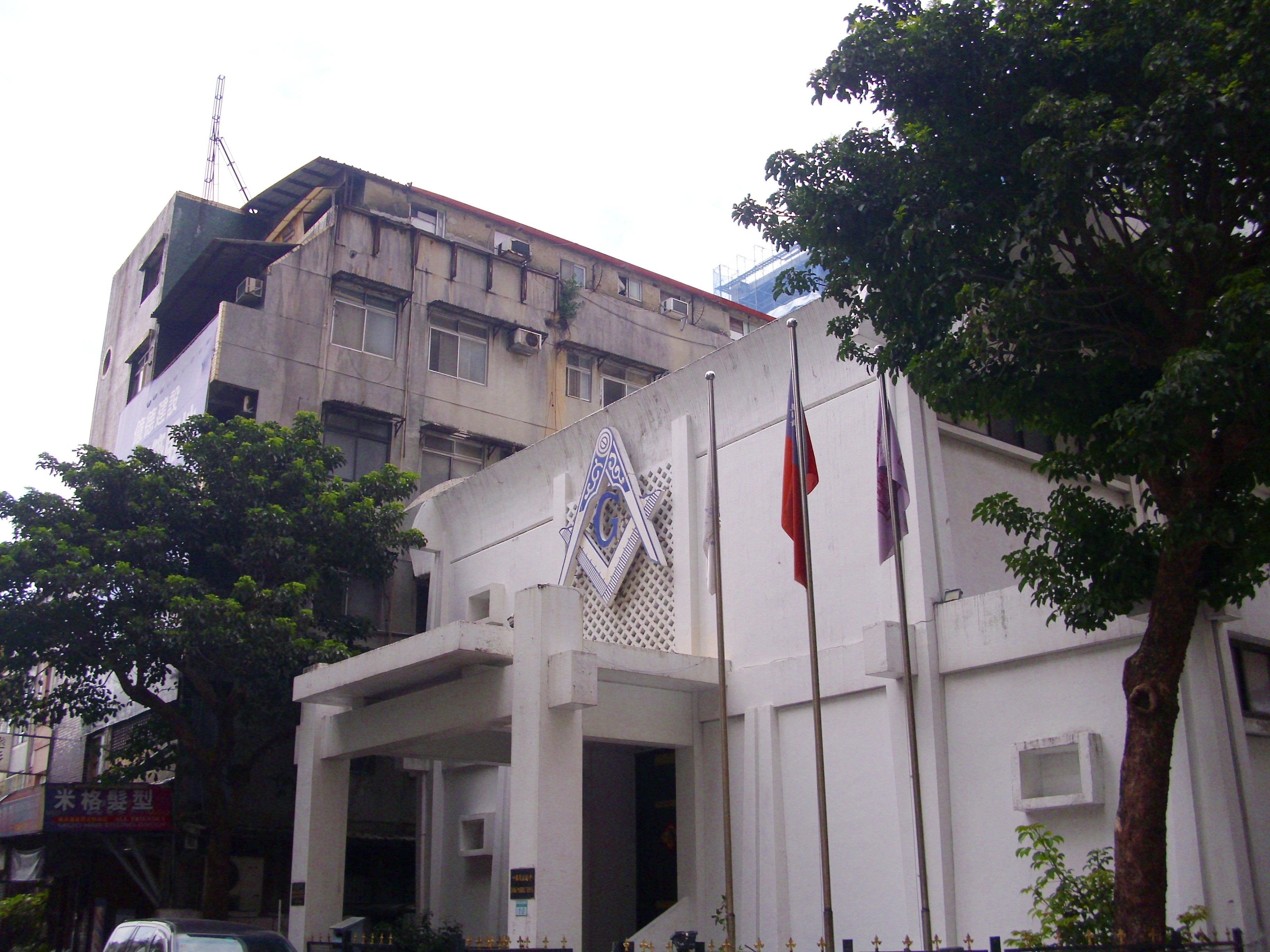 The Grand Lodge of China (in Taipei City ,Taiwan)